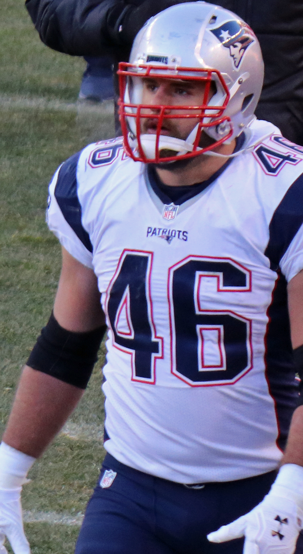 James Develin, a player on the National Football League.